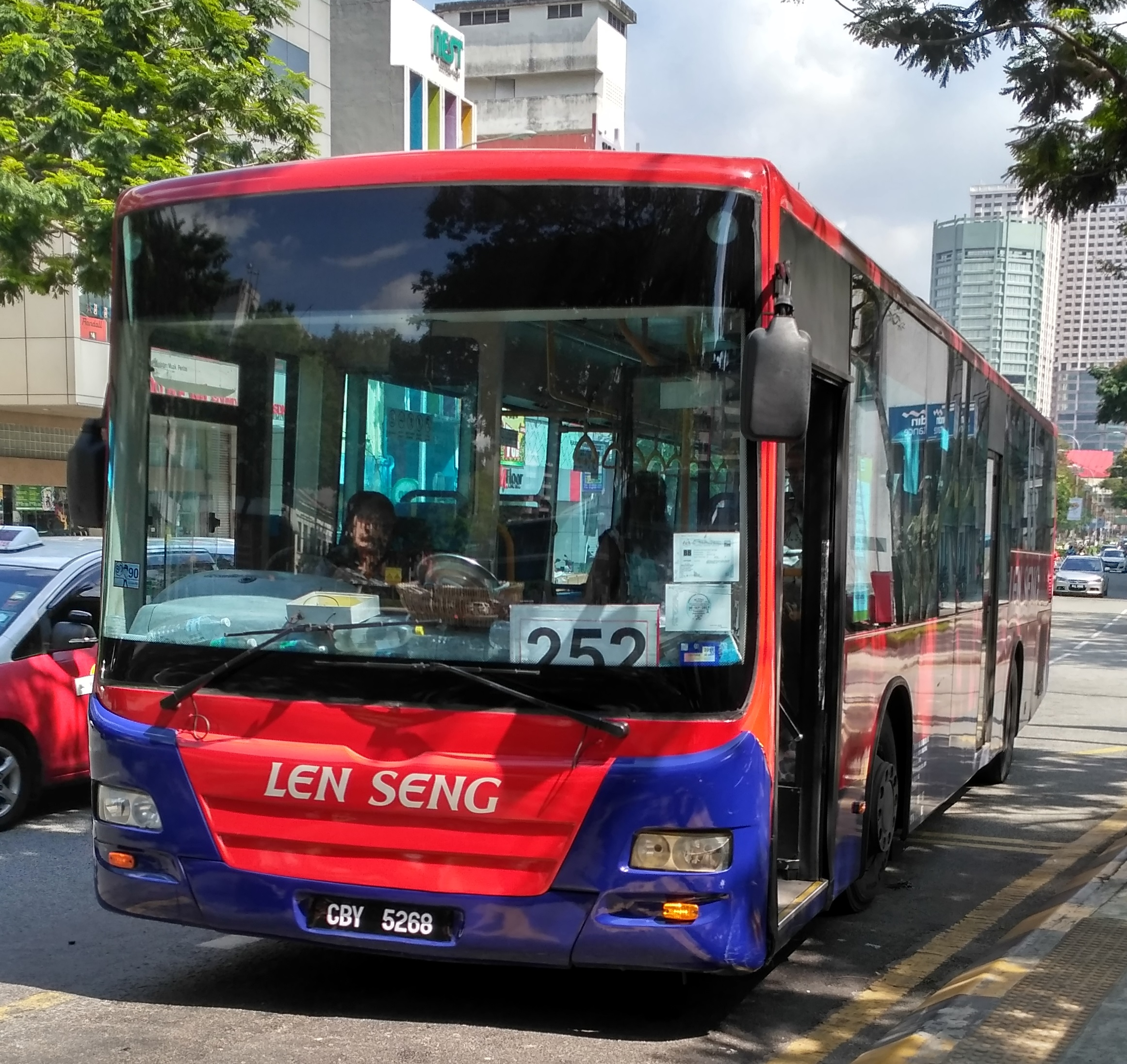 Len Seng's New Bus